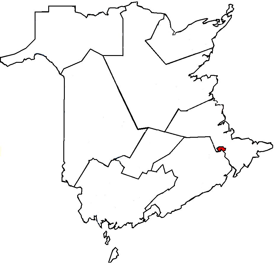 Map of the Moncton—Riverview—Dieppe electoral district. Based on Earl Andrew's maps, created by SimonP.